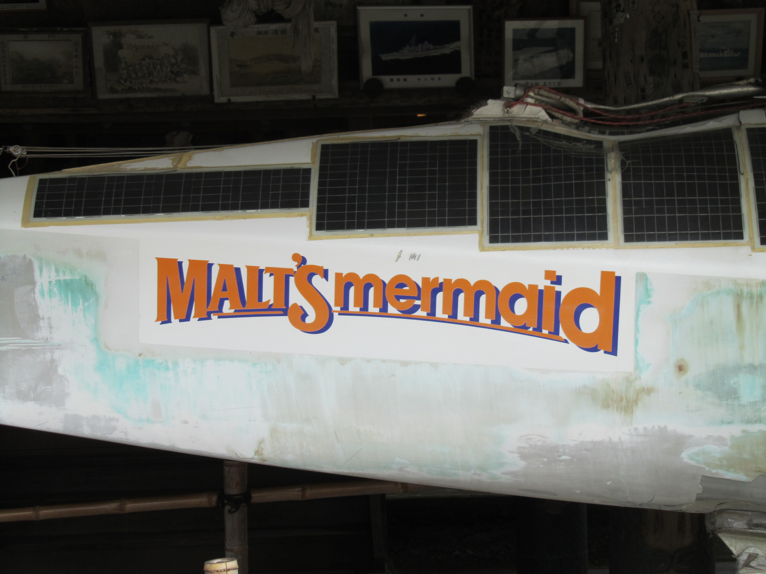 The solar recycled aluminum boat "Malt's Mermaid", piloted by Kenichi Horie, at Kotohira-gu Shrine in Shikoku, Japan.